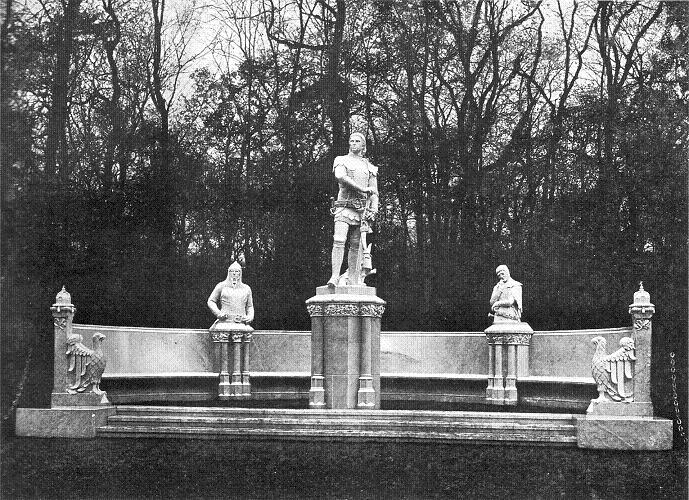 Monument group in the former Siegesallee in Berlin commemorating Brandenburg’s Margrave Louis II the Roman (1328–1365). The bust on the left commemorates the knight Hasso the Red von Wedel, and the bust on the right Governor Friedrich von Lochen. Sculptor: Emil Graf Görtz zu Schlitz. The sculpture was unveiled on 14 November 1900.